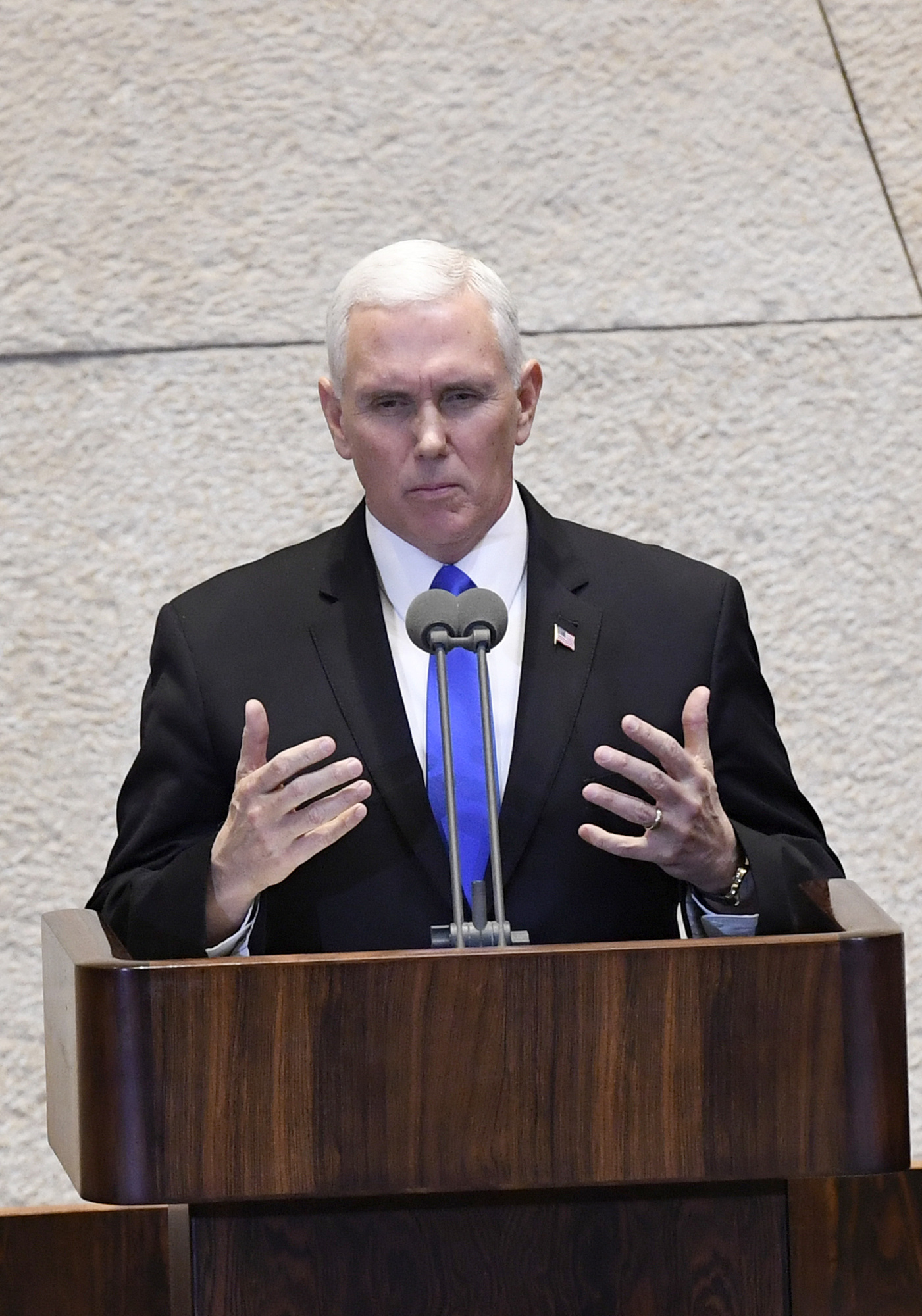 Vice President of the United States Mike Pence visits the Knesset and delivers remarks in front of a special parliamentary session, Jerusalem January 22, 2018. Vice President of the United States Mike Pence visits the Knesset and delivers remarks in front of a special parliamentary session, Jerusalem January 22, 2018.